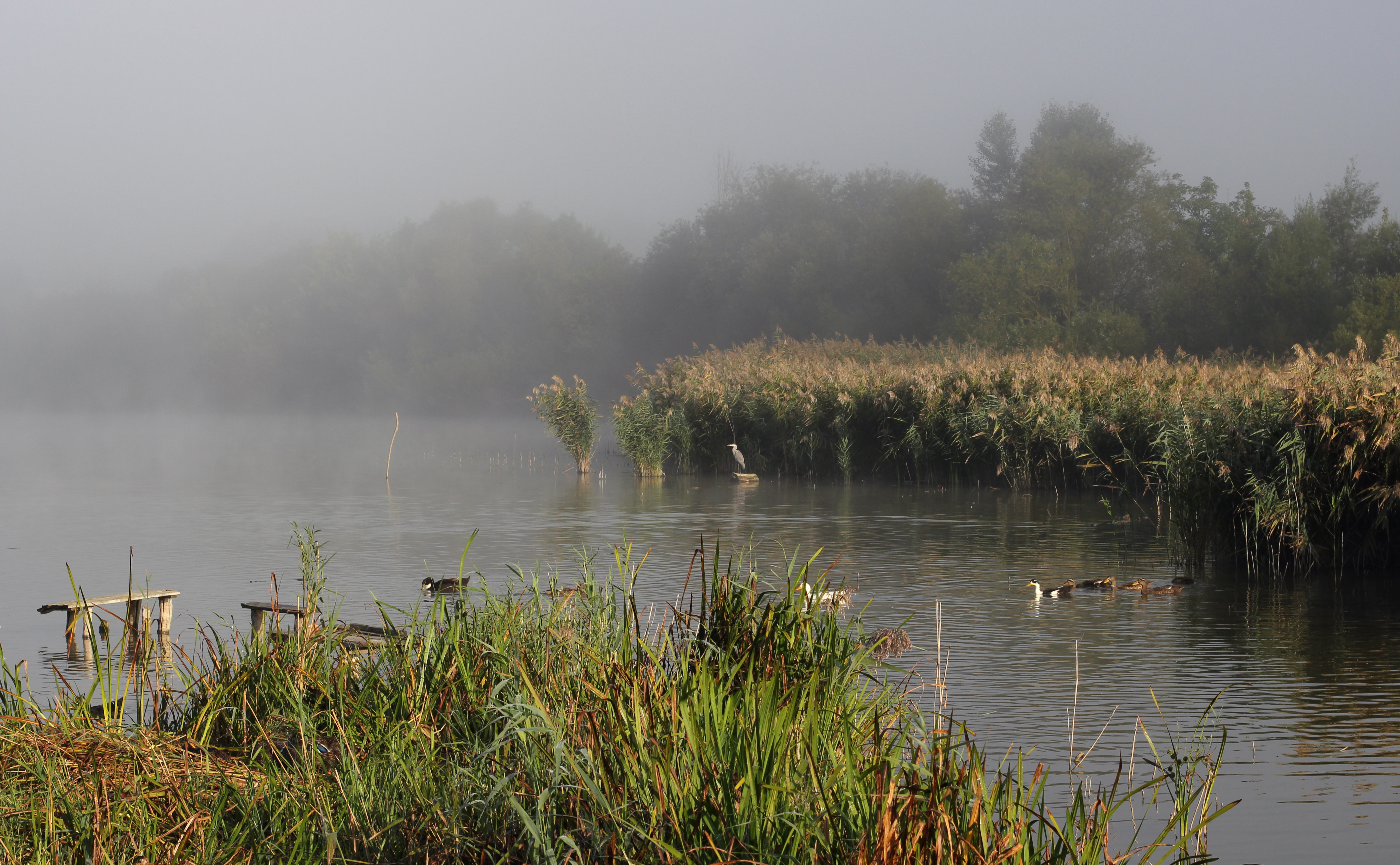 Dawn. A pond on the Tomashpilka river in the village of Komargorod. The first beams of the sun and fog over water. Tomashpil Raion of Vinnytsia Oblast. Ukraine.